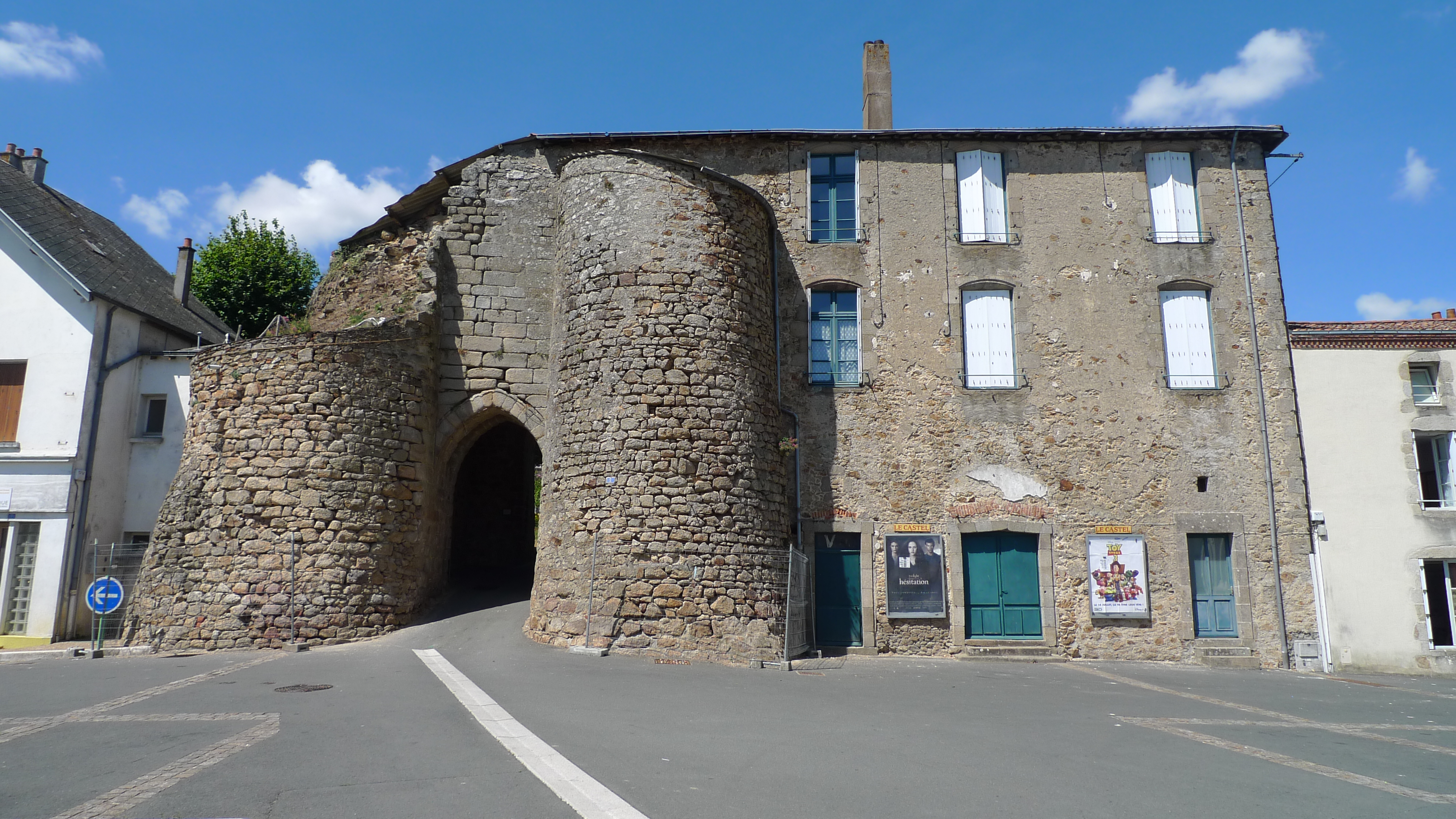 MAULEON City.French département. Gateway fortifications, with remnant of a portcullis groove. First construction of fortifications in the XIIth century. Reconstruction in the thirteenth century